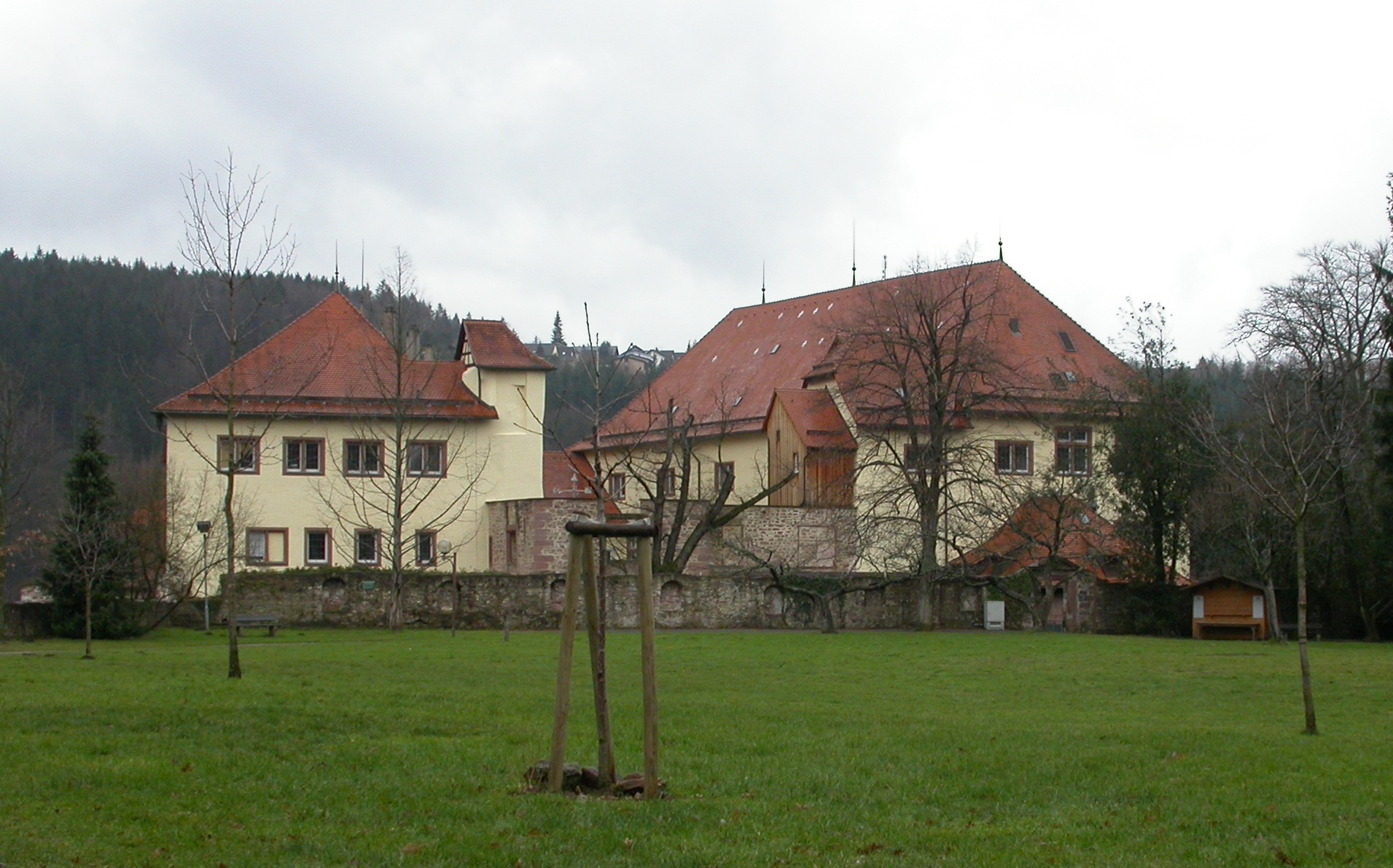 Castle of Neuenbürg